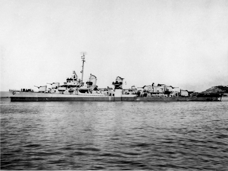 The U.S. Navy destroyer USS Hale (DD-642) off the Mare Island Naval Shipyard, California (USA), on 8 February 1945. She was in overhaul at Mare Island from 22 December 1944 until 9 February 1945.